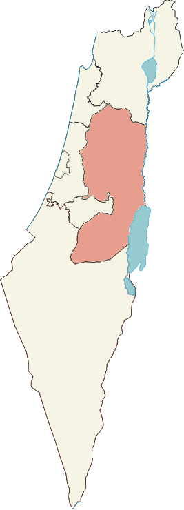 Israel: Judea and Samaria District according to official Israeli regulations. Unlike other administrative districts of Israel, this district is not entirely territorial - it includes only the Israeli settlements in the West Bank (excluding East Jerusalem which was annexed to Israeli Jerusalem district).